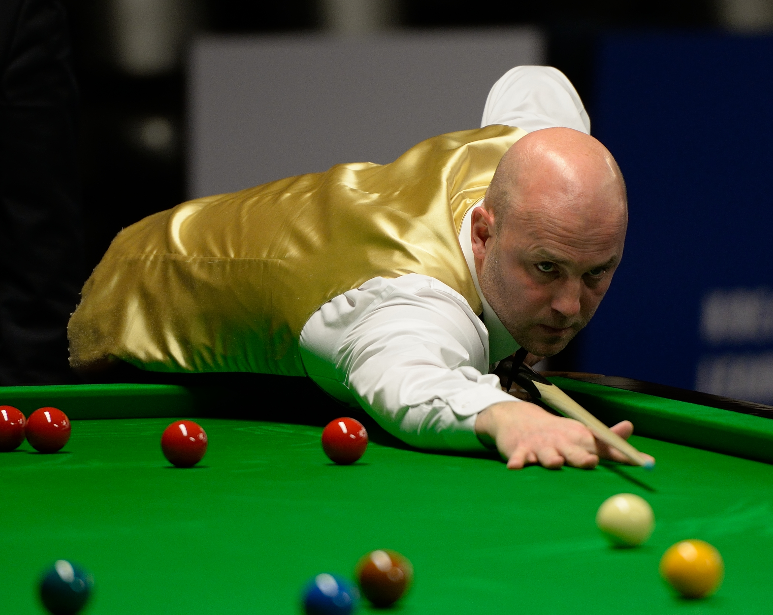 Picture taken in Berlin during the Snooker German Masters in 2015. Mark King.